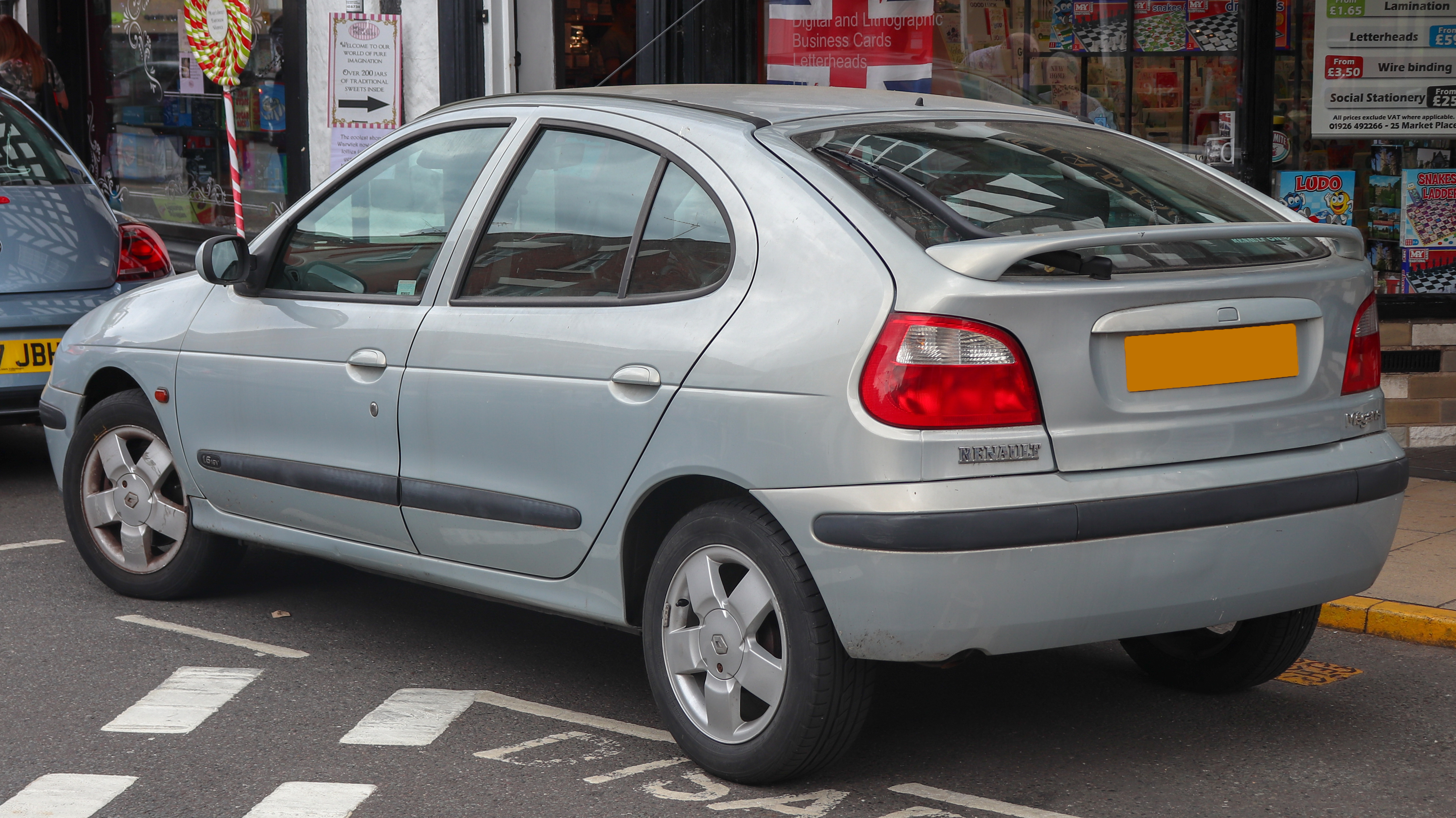 2002 Renault Megane Fidji 16V Automatic 1.6 Rear Taken in Warwick